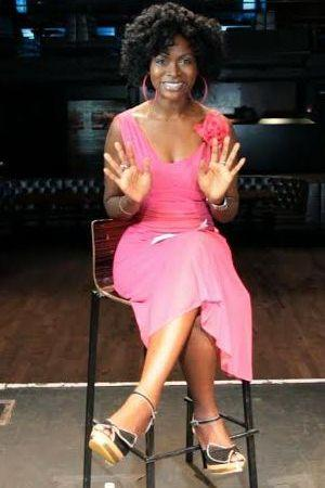 Highline Ballroom in Manhattan hosting web TV show, "Abiola's Passion Party" on Wednesday, August 14, 2013.